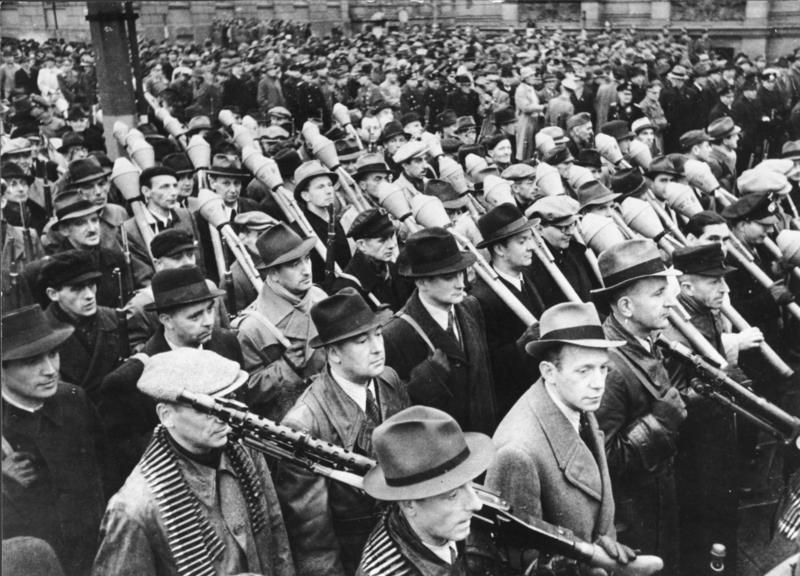 Volkssturm march past Goebbels, Berlin.Ceremonious swearing-in of the volunteers of the Berliner Volkssturm.Today the solemn swearing-in of the volunteers of the German Volkssturm took place in Berlin. Image shows Volkssturm militia troops with their weapons during the march past Reich Minister for Public Enlightenment and Propaganda Dr. Goebbels.